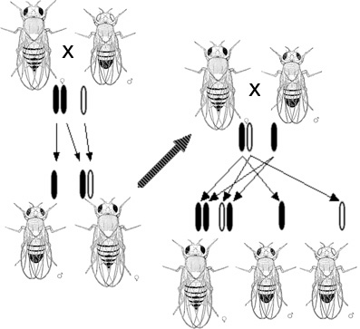 white mutation and sex-linked inheritance. Fly images are available under PD. (from THE PHYSICAL BASIS OF HEREDITY. Thomas Hunt Morgan. Philadelphia: J.B. Lippincott Company 1919)